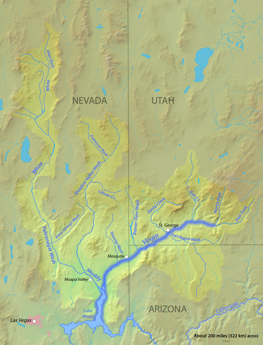 Map of the Virgin-Muddy River watershed in UT, NV and AZ in the United States, part of the Colorado River Basin